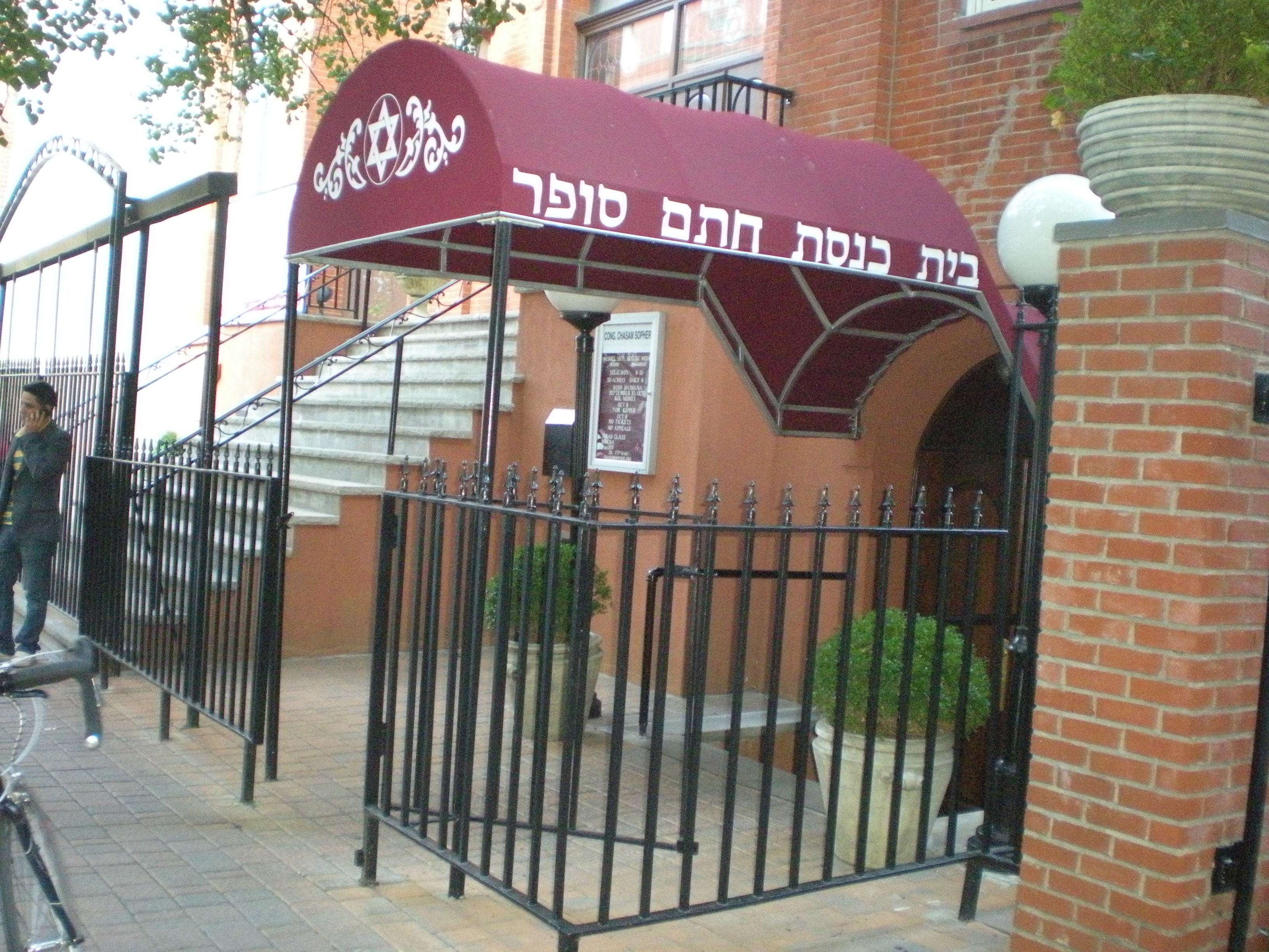 This photo is of Wikis Take Manhattan goal code F22, Congregation Chasam Sopher.